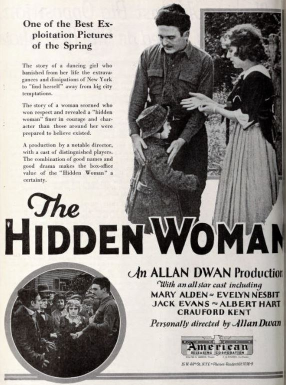 Advertisement for the American drama film The Hidden Woman (1922) with Evelyn Nesbit and Russell Thaw, on page 20 of the April 22, 1922 Exhibitors Herald. The film was made in 1916 and not released until 1922.